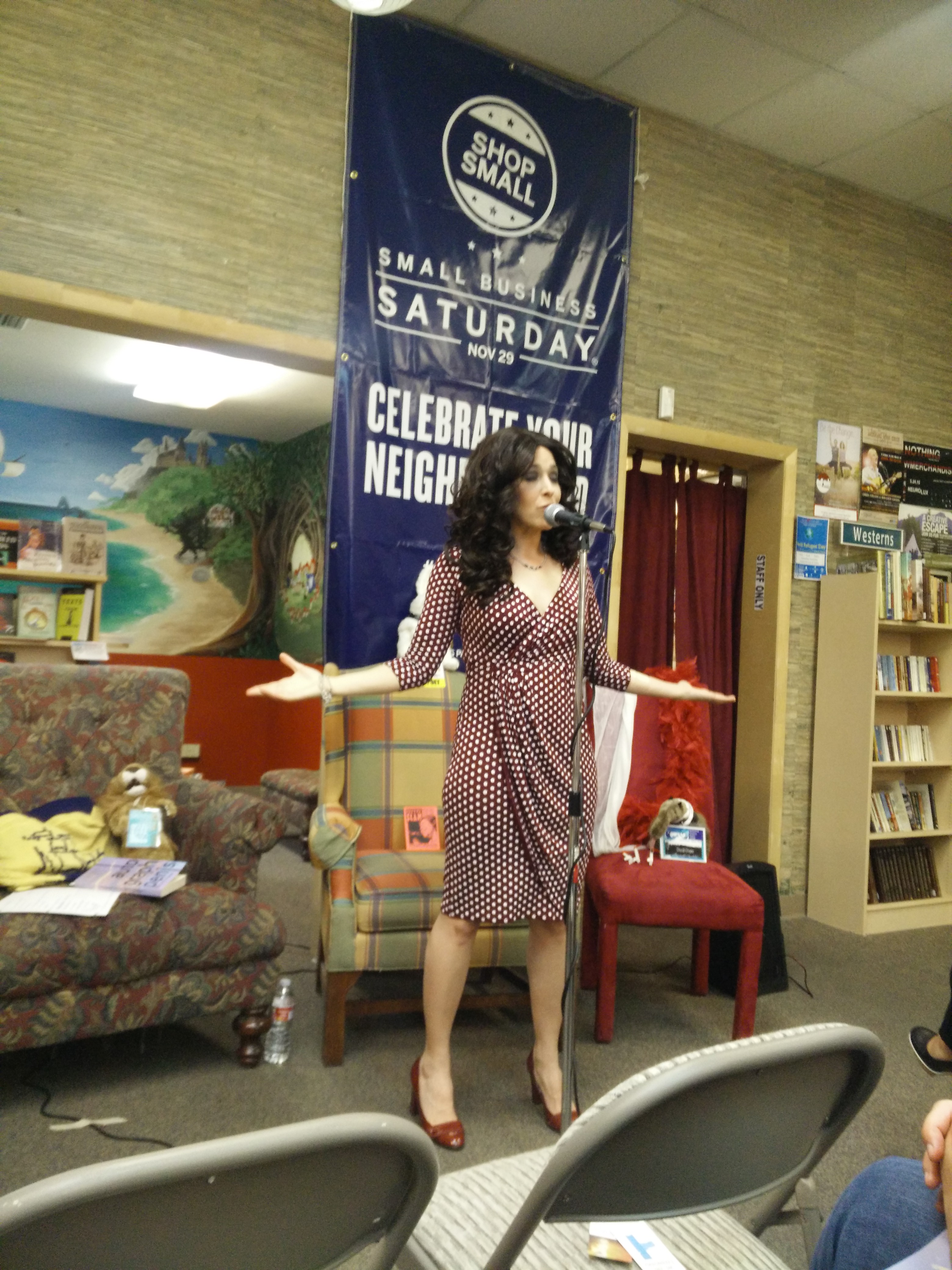 H. O. Tanager (author of Autograph Penis) performs at the Rediscovered Bookshop in Boise, Idaho.